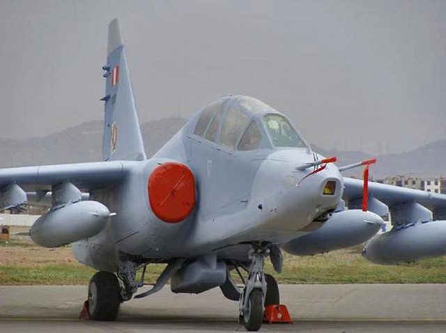 Peruvian Su-25